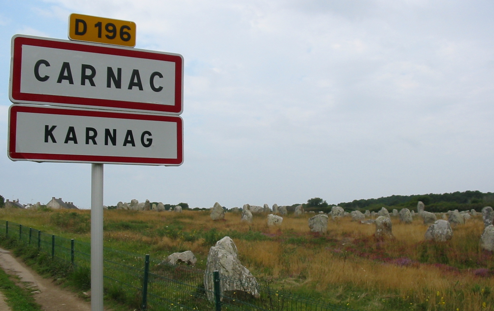 Bilingual sign at Carnac with megaliths behind